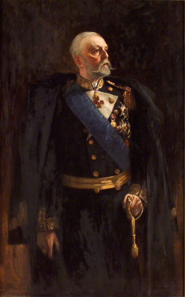 Portrait of Oscar II of Sweden (1829-1907)